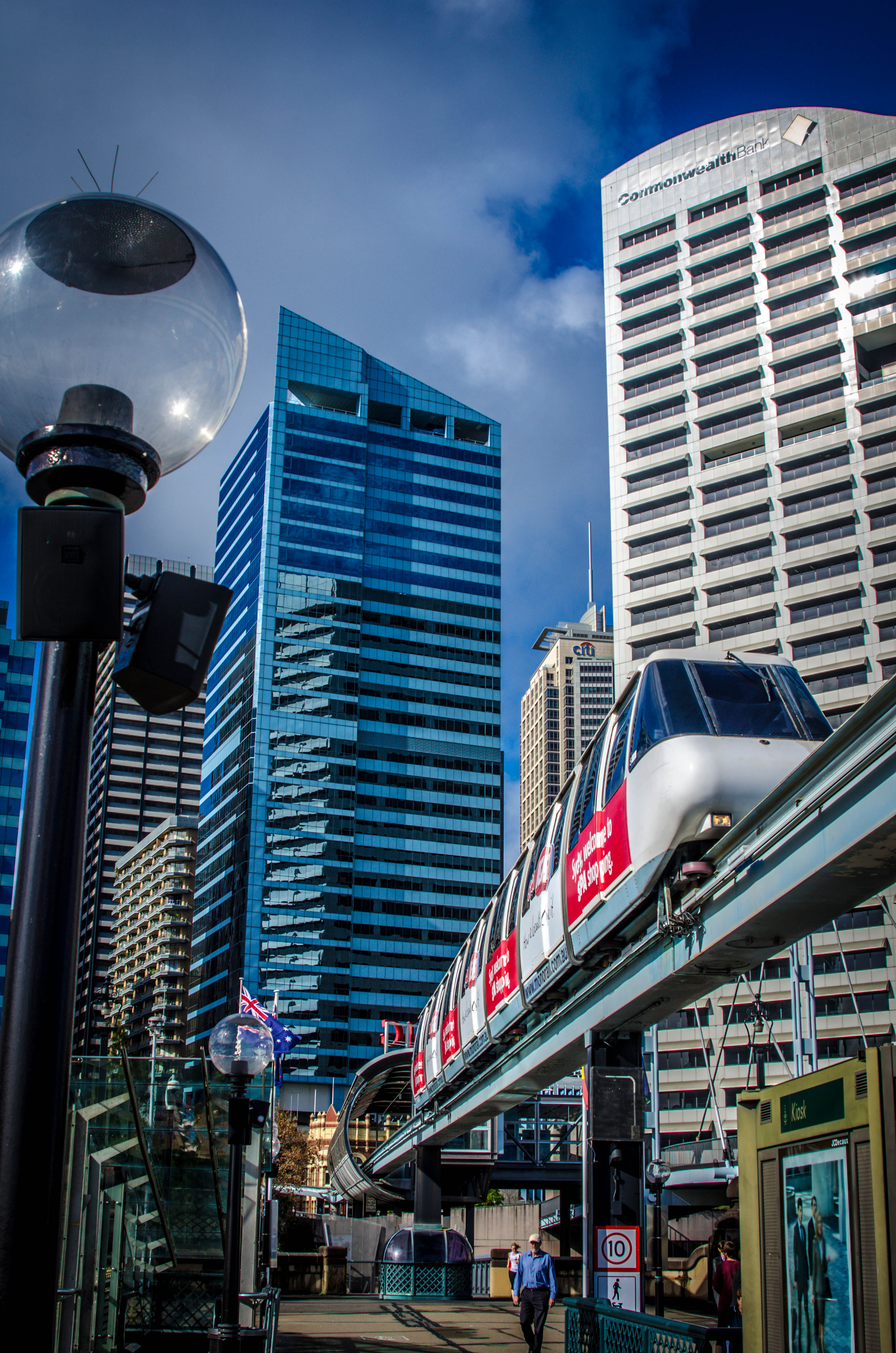 Metro Monorail Pyrmont Bridge